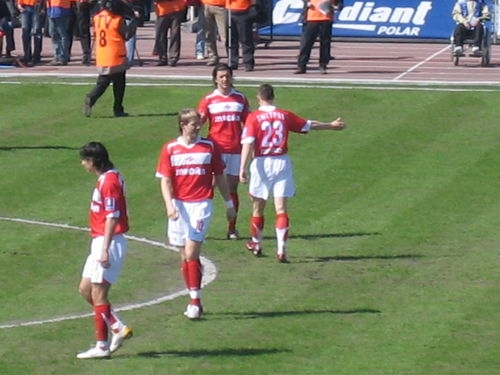 2006 Russian Premier League (FC Zenit St.Petersburg v.s. FC Spartak Moscow)